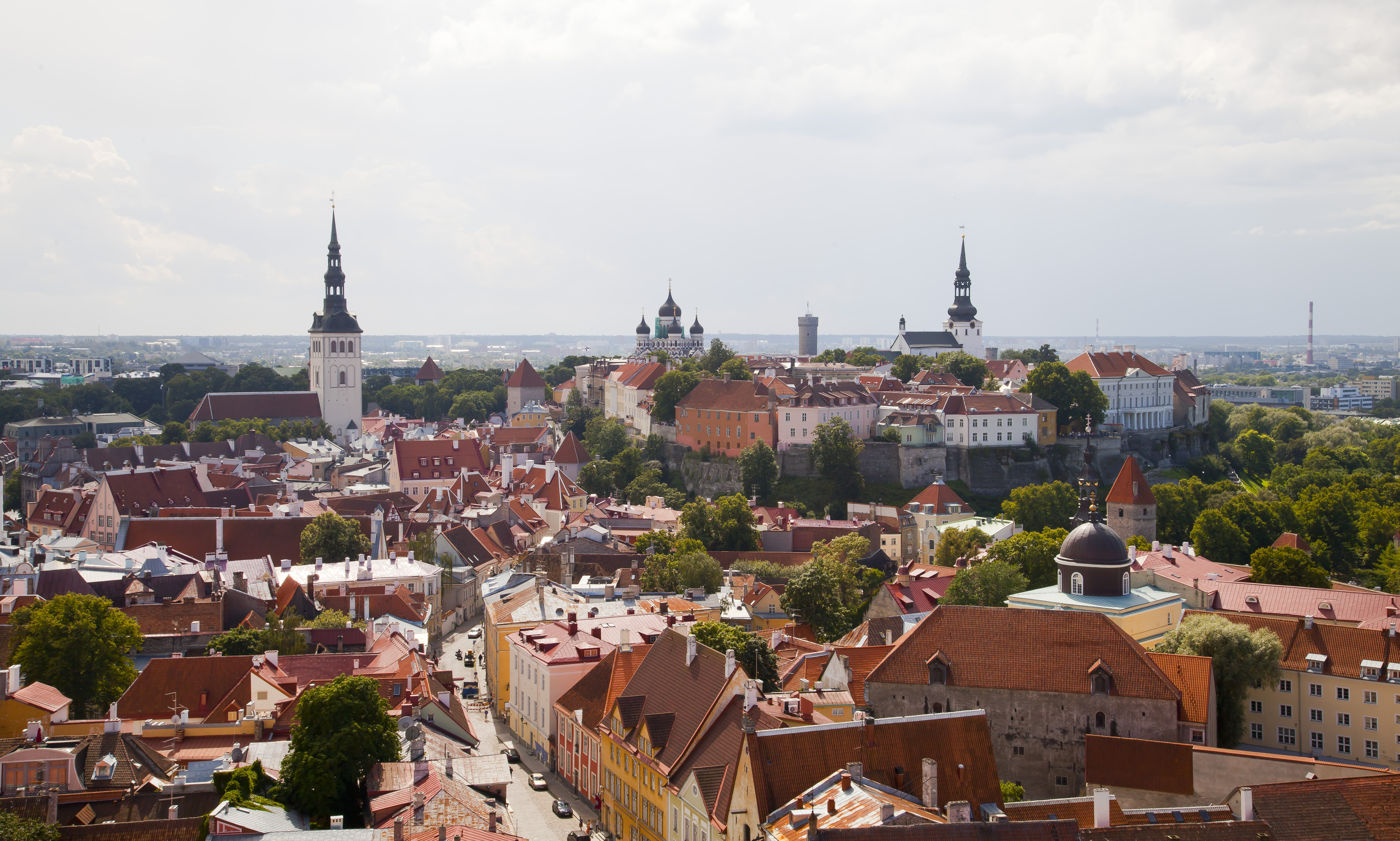 Panoramic view of Tallinn from Olaf's church, Estonia